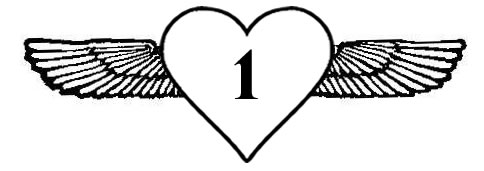 Sufism Reoriented symbol icon